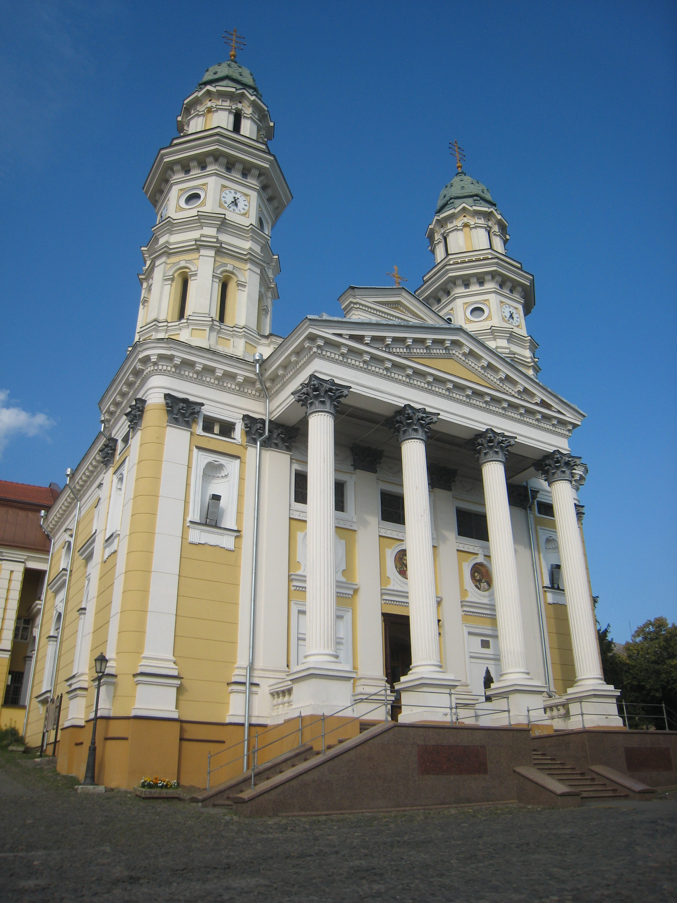 Cathedral in Uzhhorod.